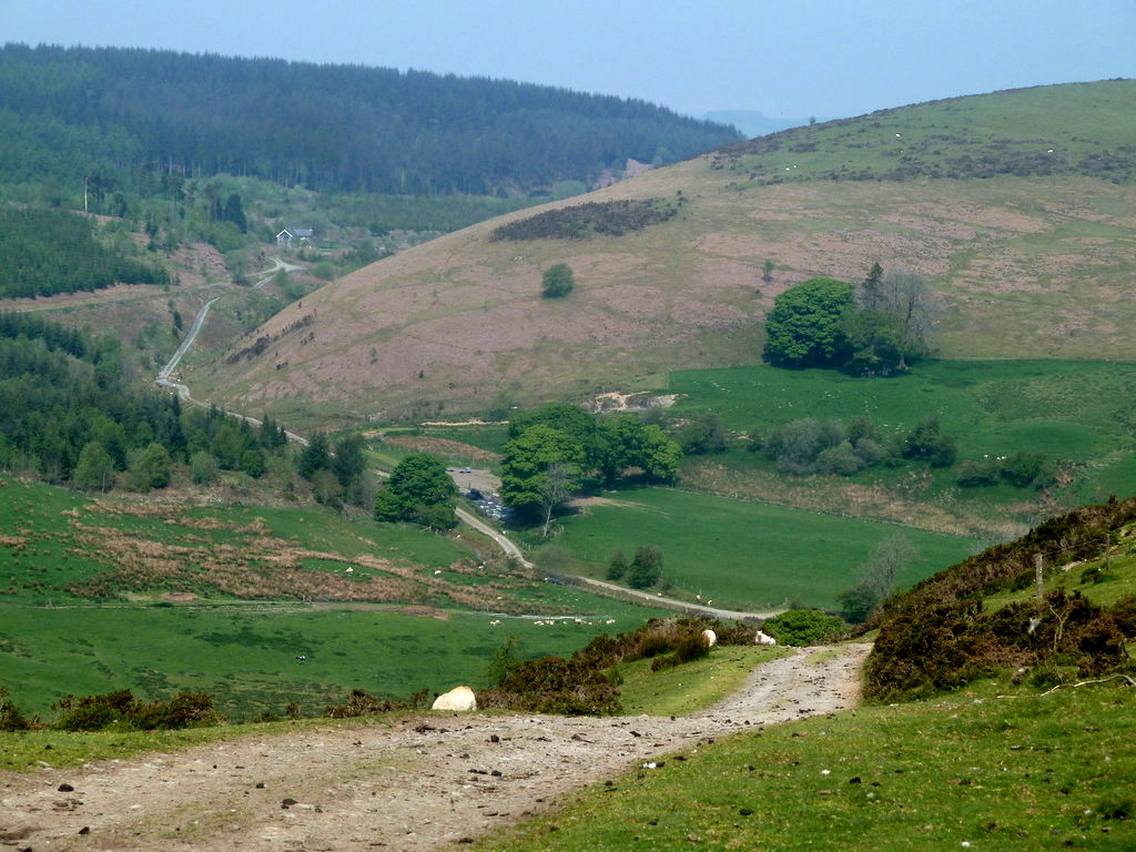 Track to New Well and Red Lion. The track crosses the valley of Crychell Brook. Seen from the Glyndwr's Way crossing.